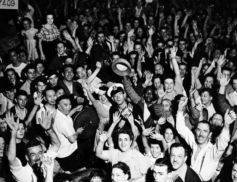 Crowds celebrating V-J Day in Montreal